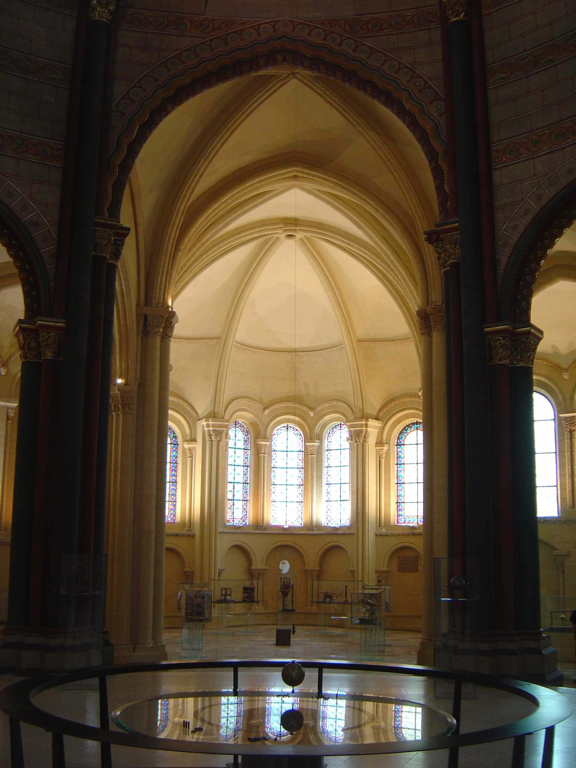 Foucault's pendulum in the Musée des Arts et Métiers (former priory of St Martin des Champs) in Paris